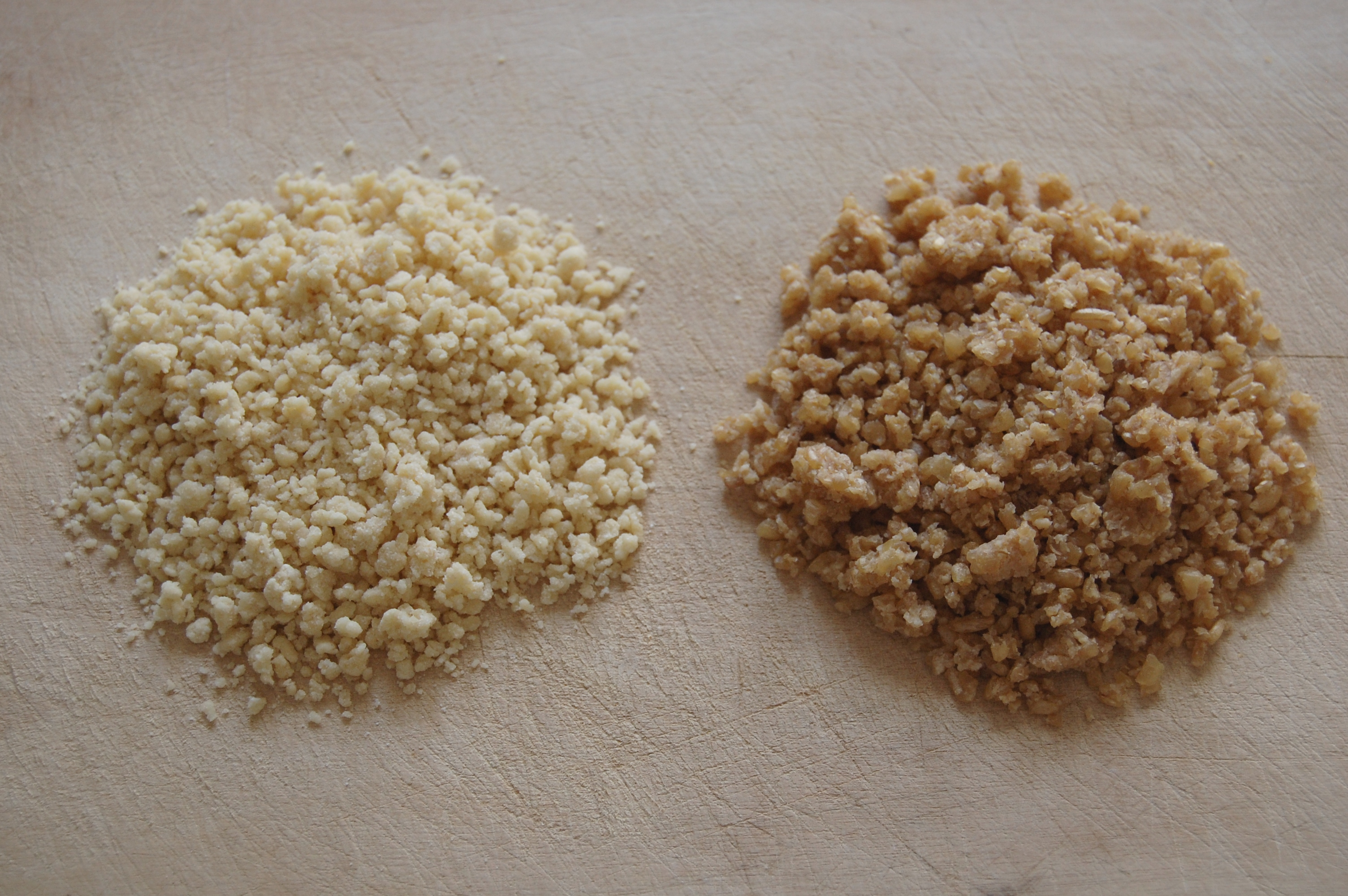 Two kinds of tarhana: tarhana with yogurt (and a little butter) (left) and wholemeal wheat tarhana from Crete (right).